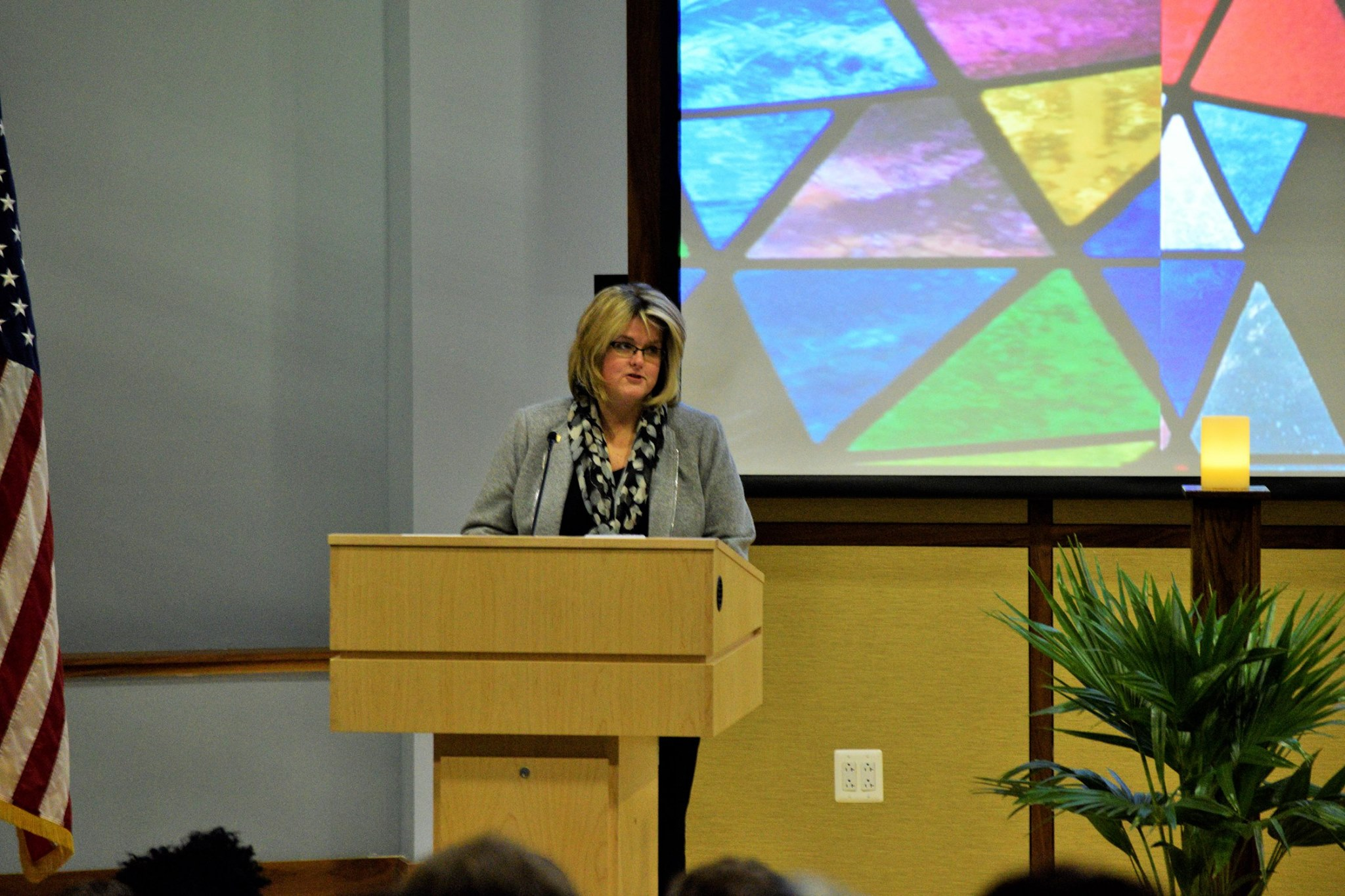 Hanycz speaking at MLK Jr. Interfaith service 2017